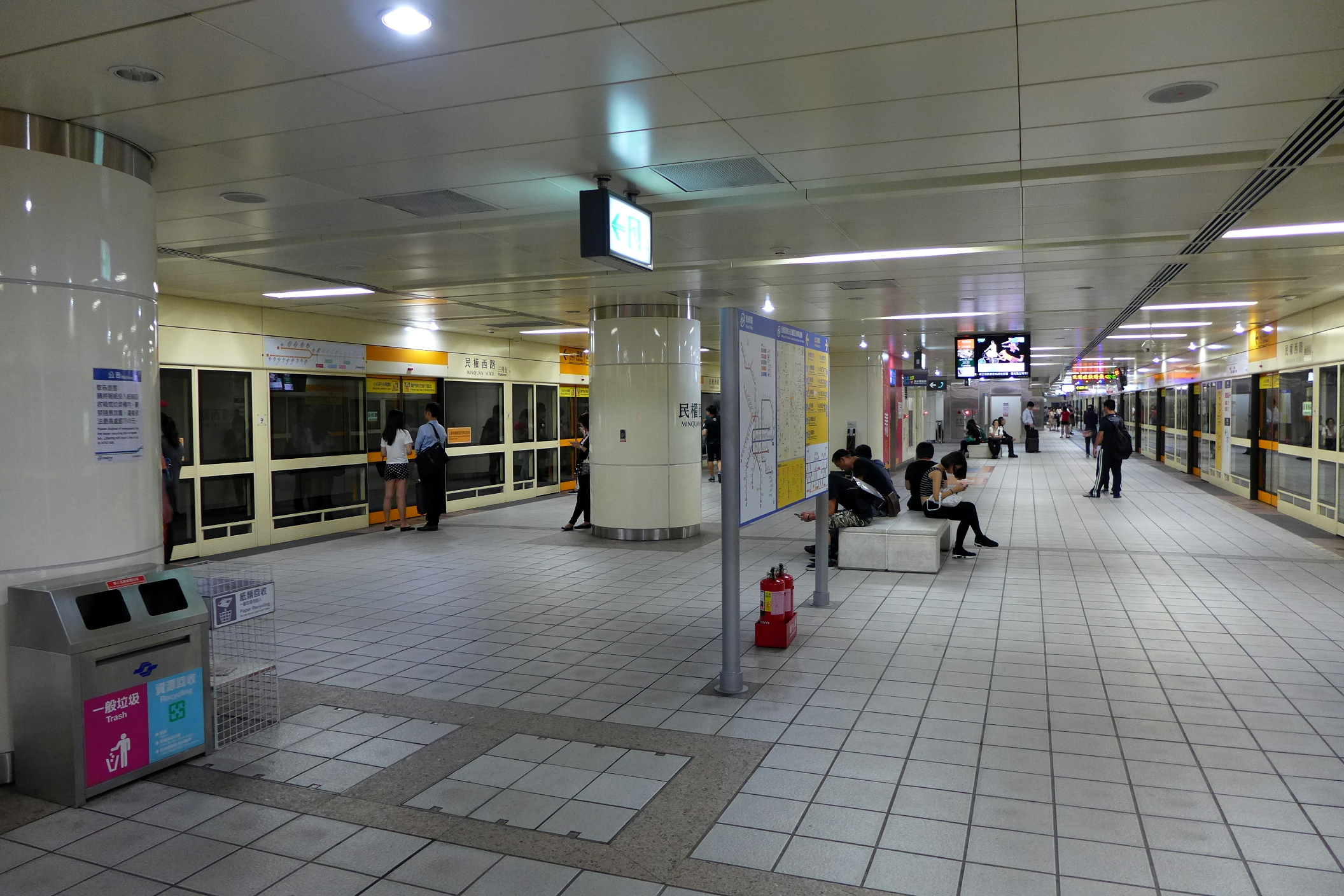 Minquan West Road Station Platform